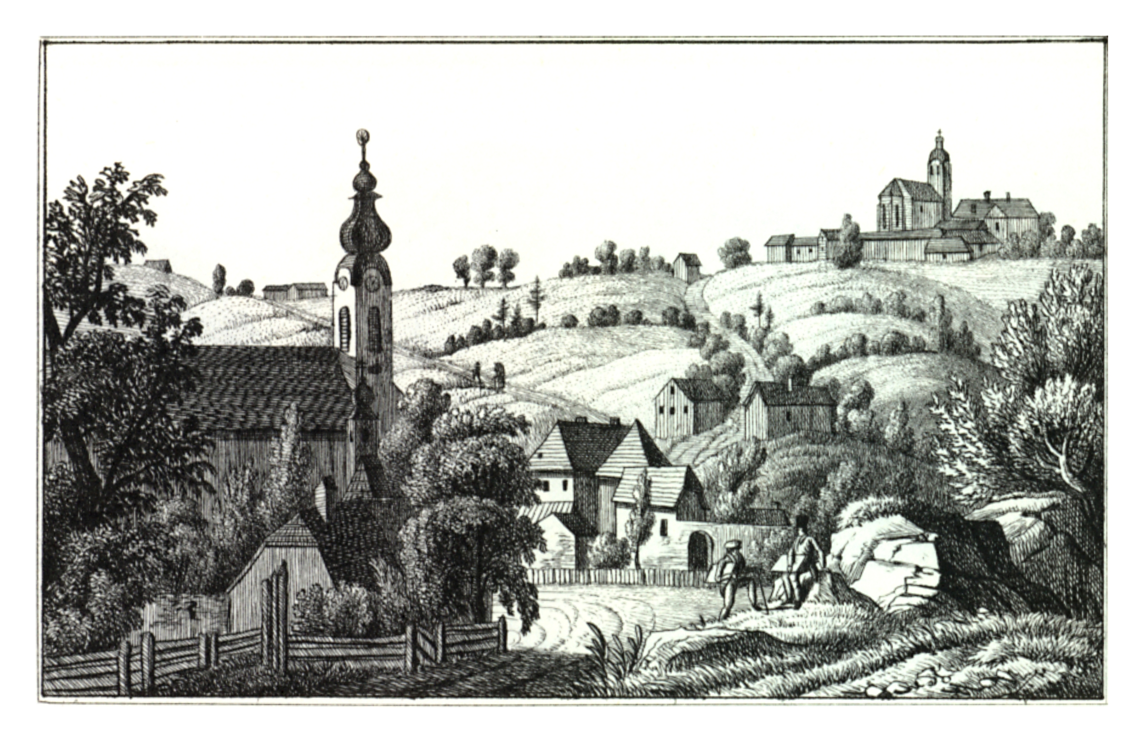 J. F. Kaiser - lithographirte Ansichten der Steyermärkischen Städte, Märkte und Schlösser Graz, 1825 Scanprojekt Community Projektbudget 2012 This scan or this PDF-file was created within the GLAM-project Bookscanning, supported by Wikimedia Germany and Wikimedia Austria as a part of the community-project to capture books, documents and pictures which are not eligible to copyright or for which the copyright has expired. This document describes or depicts an object which is located in Austria today. Send requests for uncompressed scans to Hubertl. This work is in the public domain in its country of origin and other countries and areas where the copyright term is the author's life plus 100 years or less. You must also include a United States public domain tag to indicate why this work is in the public domain in the United States. This file has been identified as being free of known restrictions under copyright law, including all related and neighboring rights.